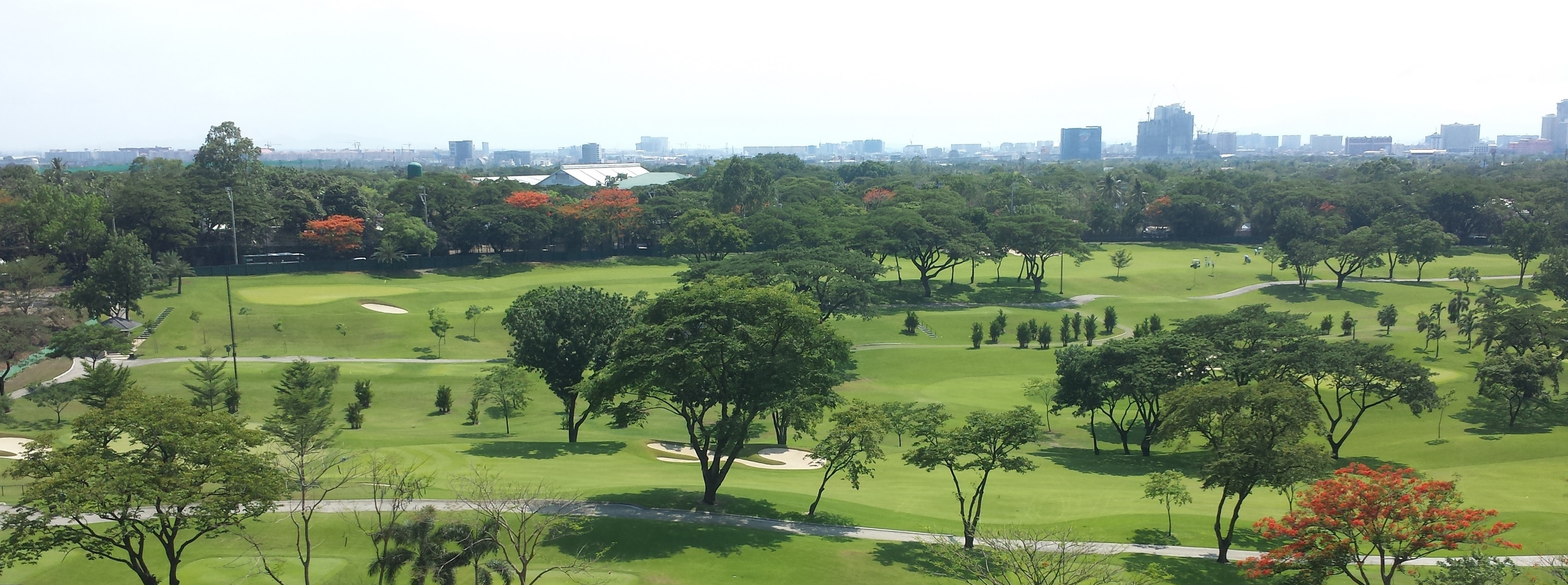 A part of the Manila Golf Course and Country Club in Bonifacio Global City, Taguig, Metro Manila, Philippines.